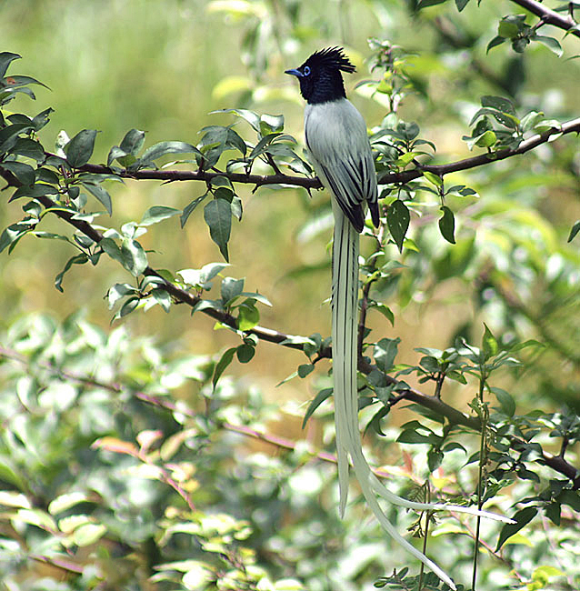 Asian Paradise Flycatcher Terpsiphone paradisi in Kullu District of Himachal Pradesh, India.